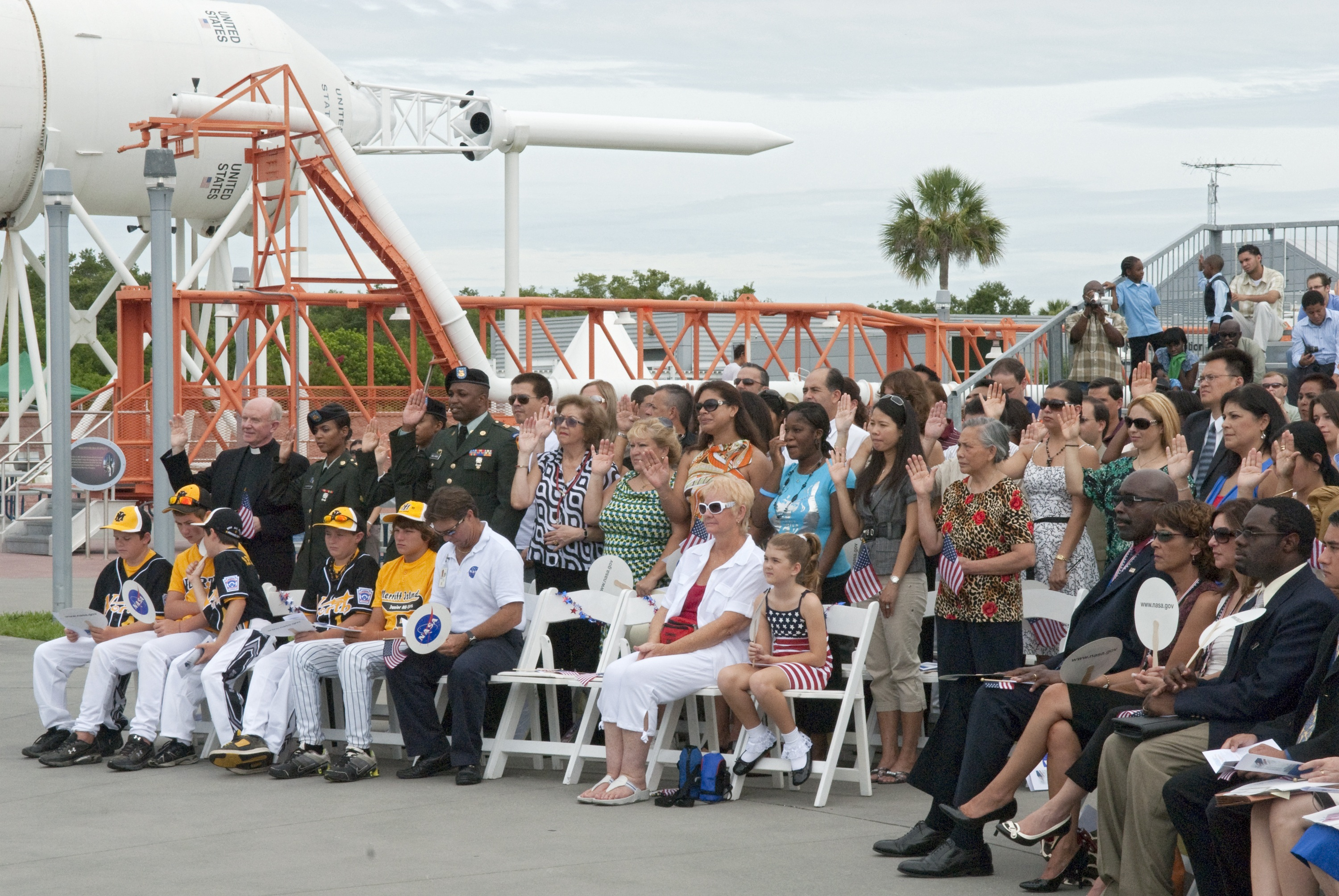 More than 100 people take the Oath of Allegiance to become American citizens.